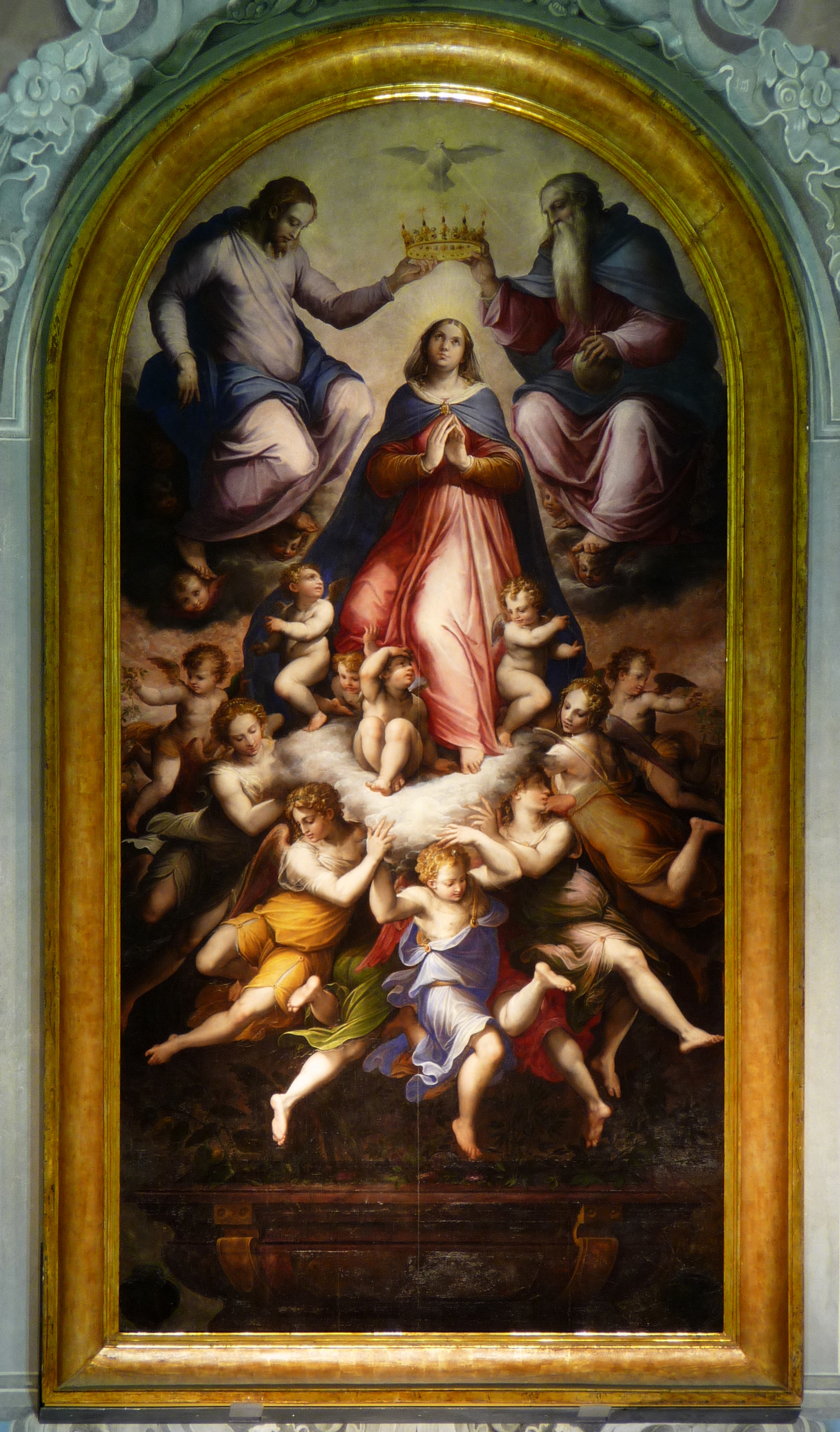 Incoronazione della Vergine (Coronation of the Virgin), 1571, altarpiece by Giorgio Vasari (1511–1574), Church Santa Caterina, Livorno, Italy